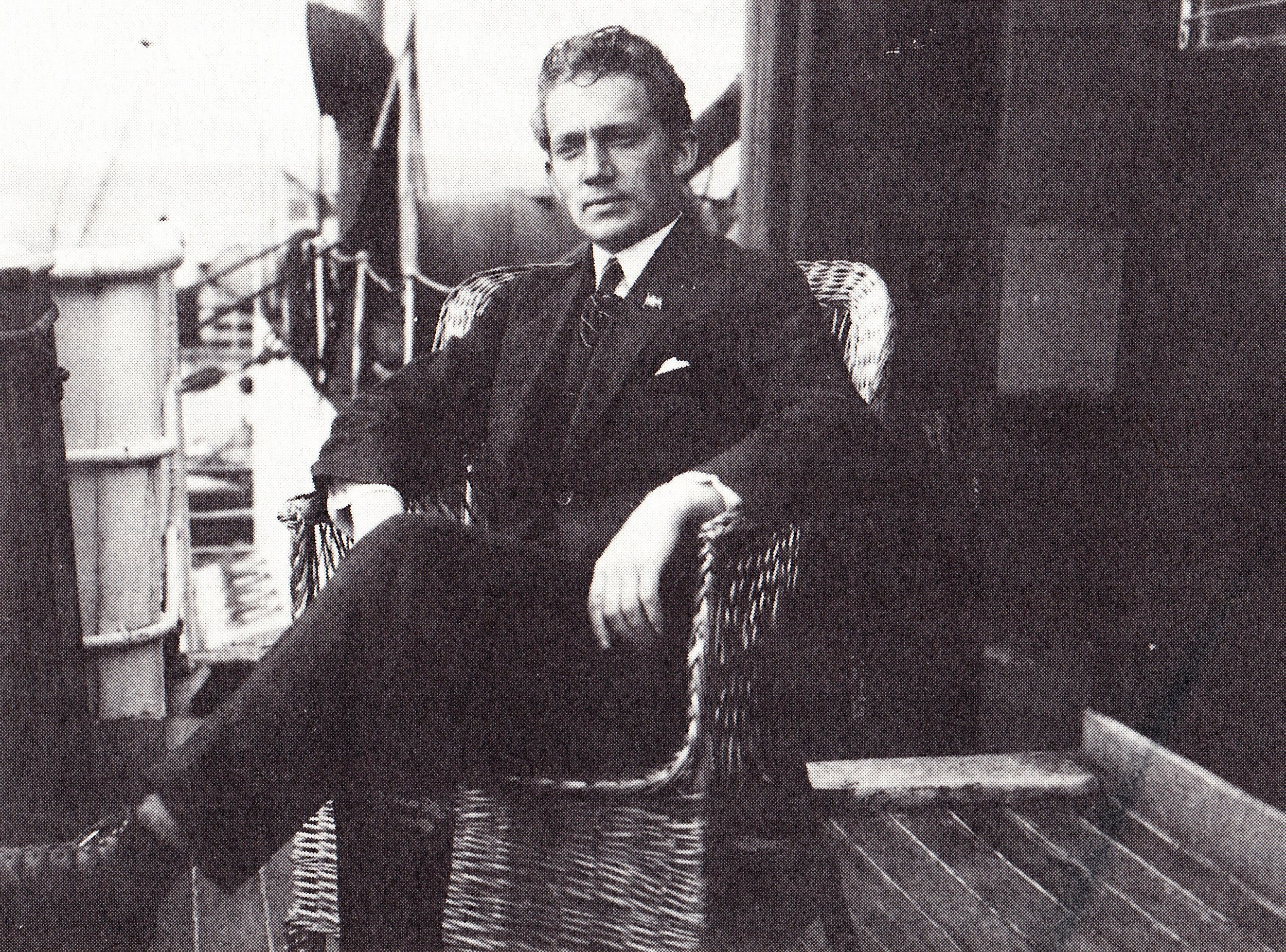 Trygve Gulbranssen on one of his business journies.